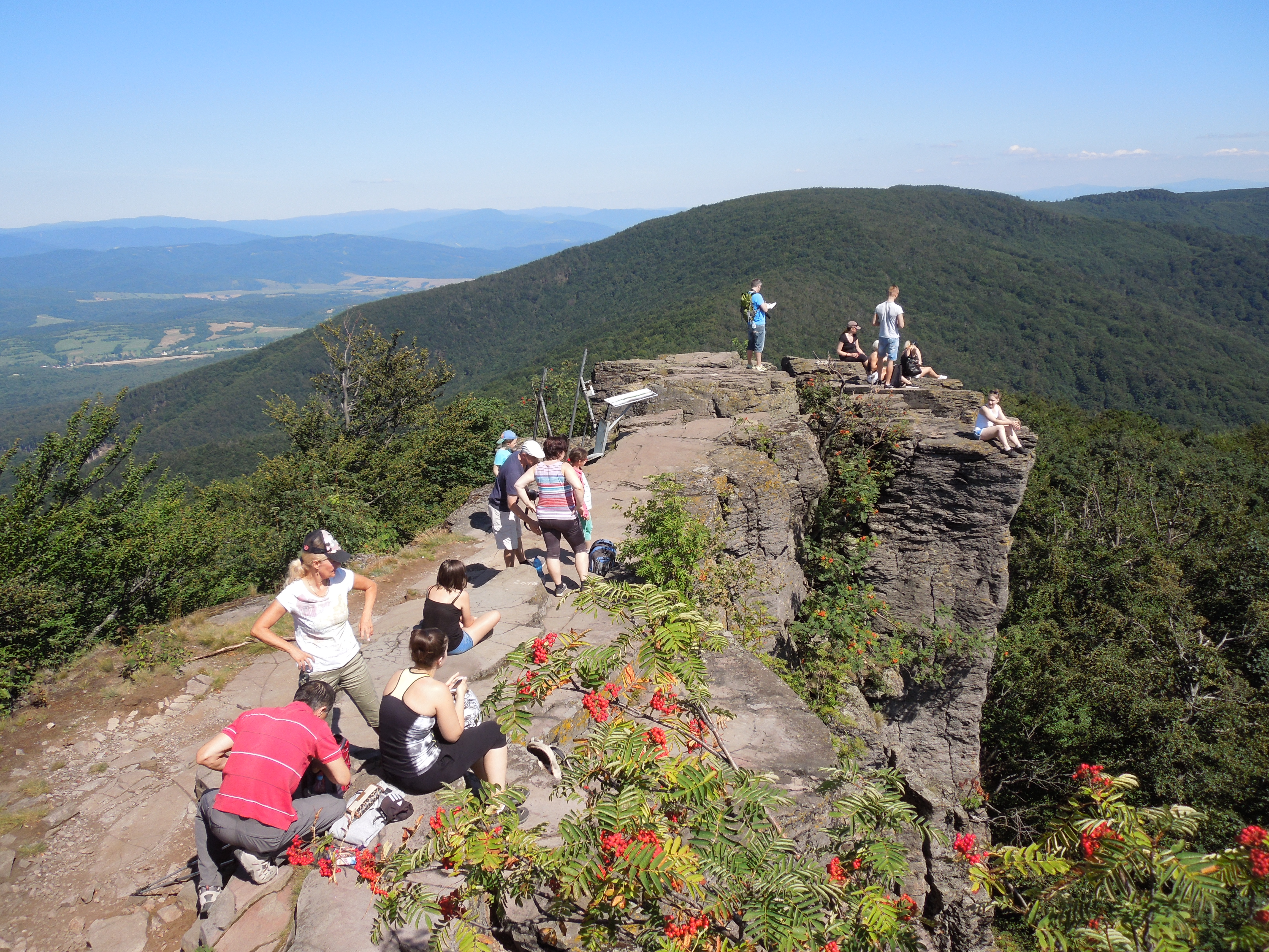 Sninský kameň (its eastern part) in the summer This is a photography of Natura 2000 protected area with ID SKUEV0209